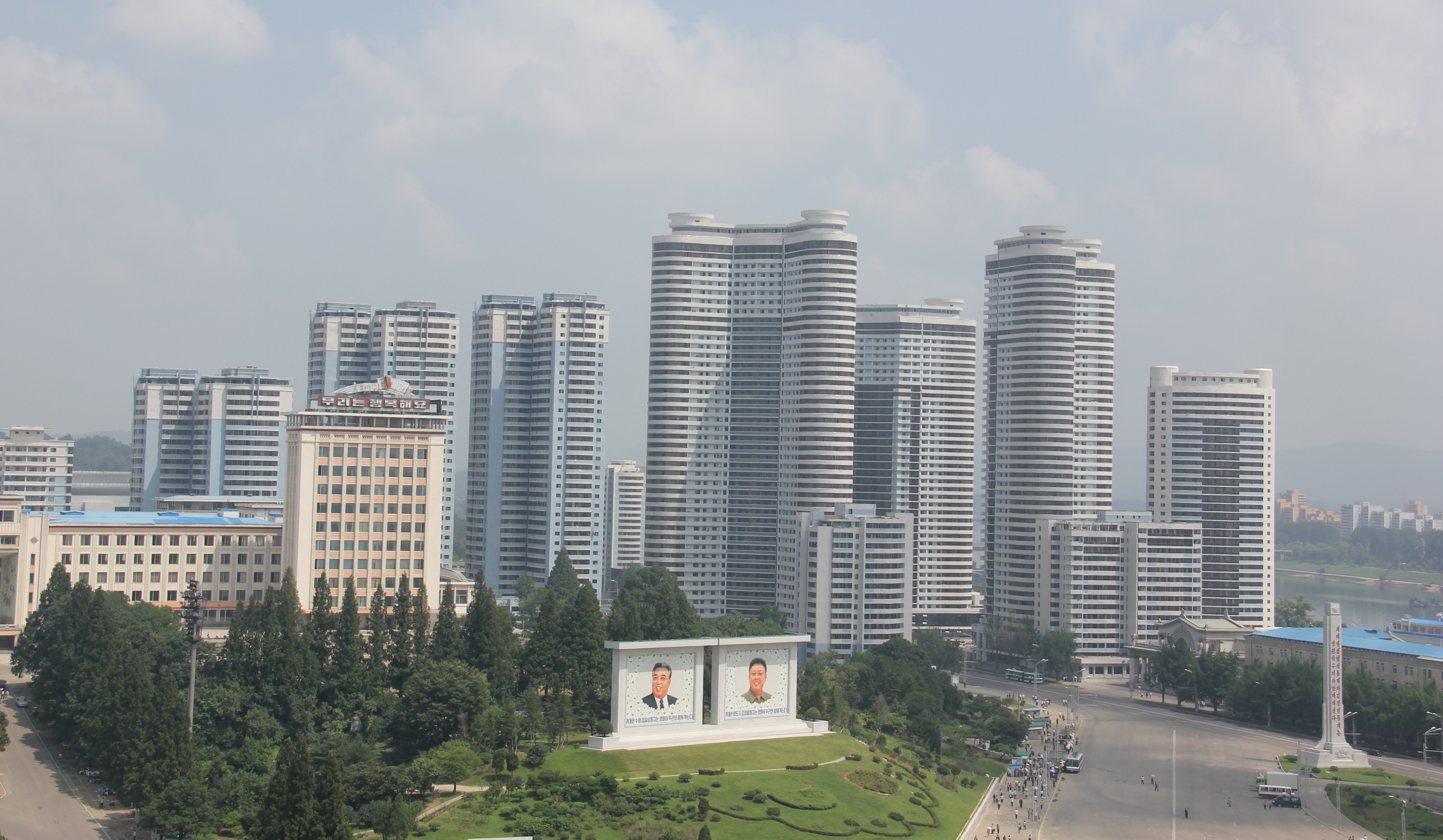 View from the Grand People's Study House.